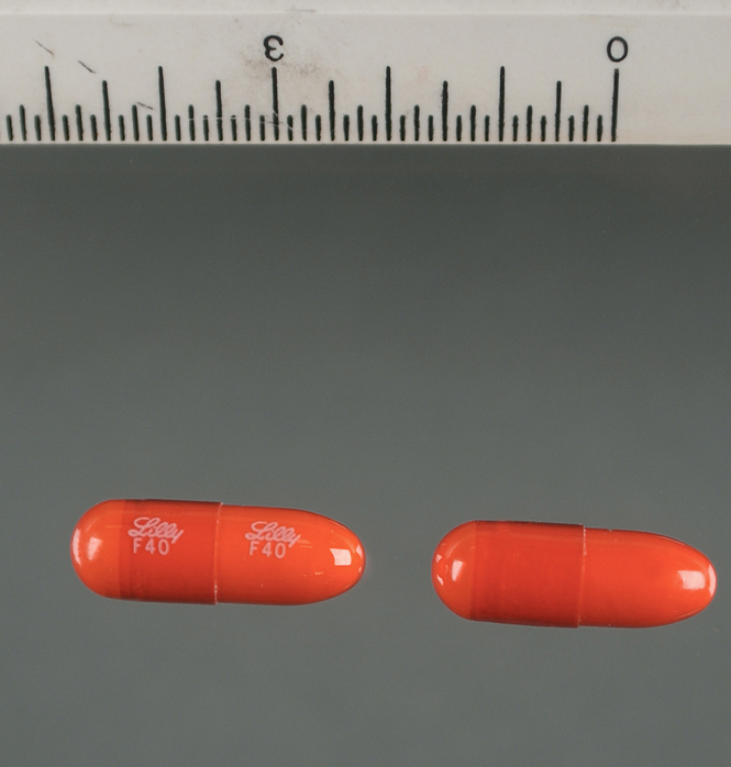 From the Department of Justice website.[1]